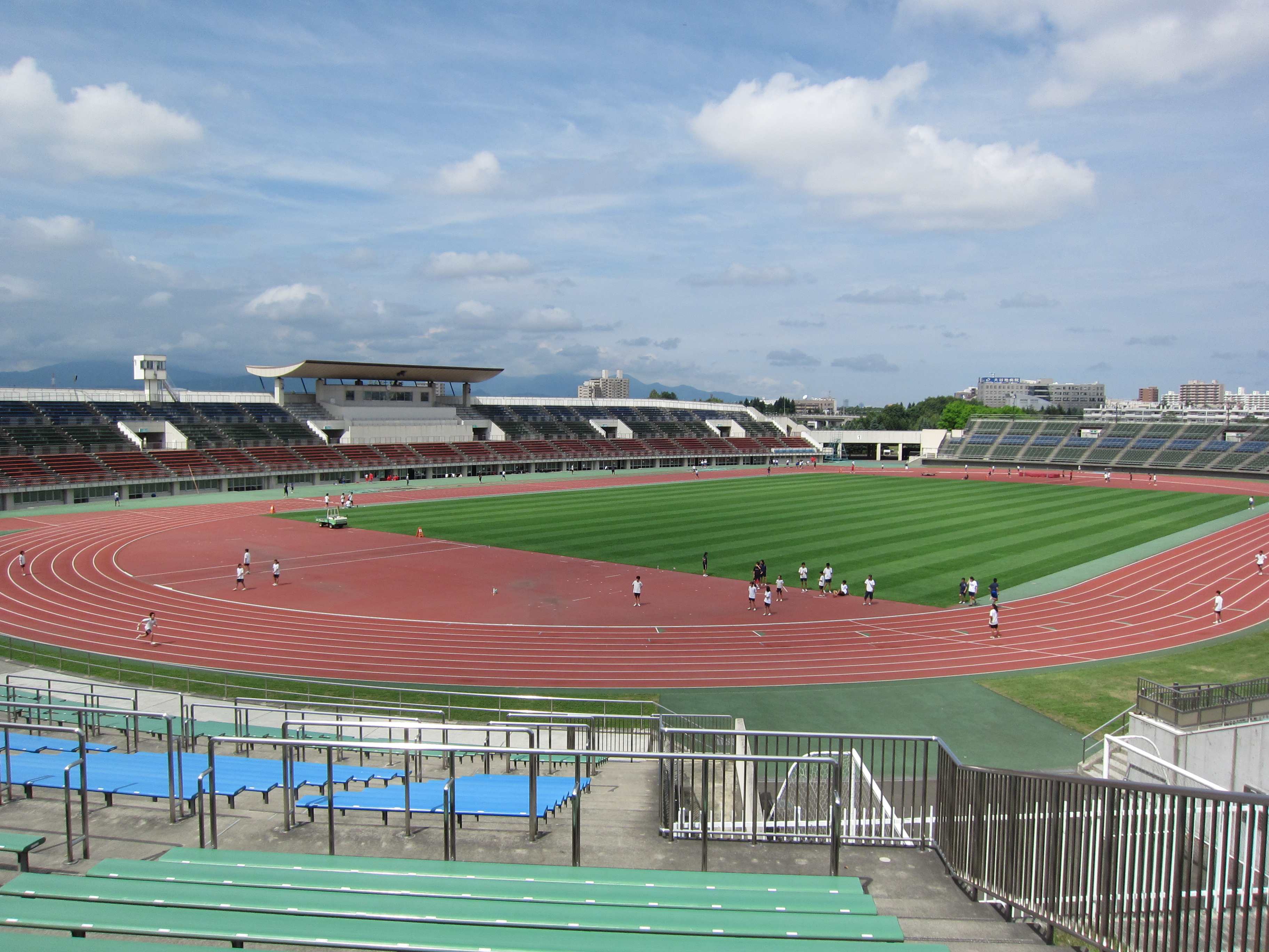 Atsubetsu Park Stadium